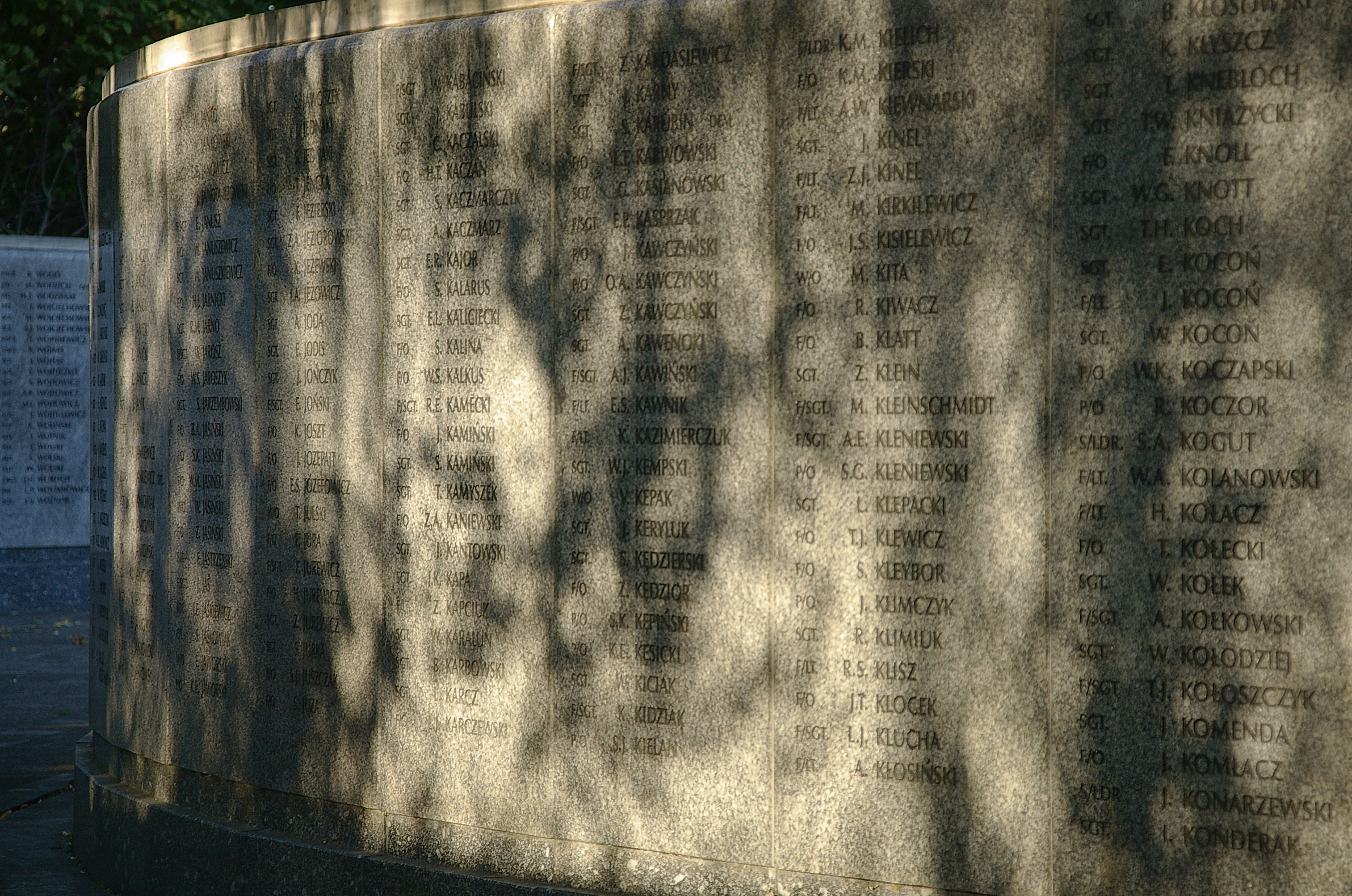 The Polish War Memorial near RAF Northolt, listing the names of all the Polish airmen who died during the Second World War, specifically those who died fighting in Britain.